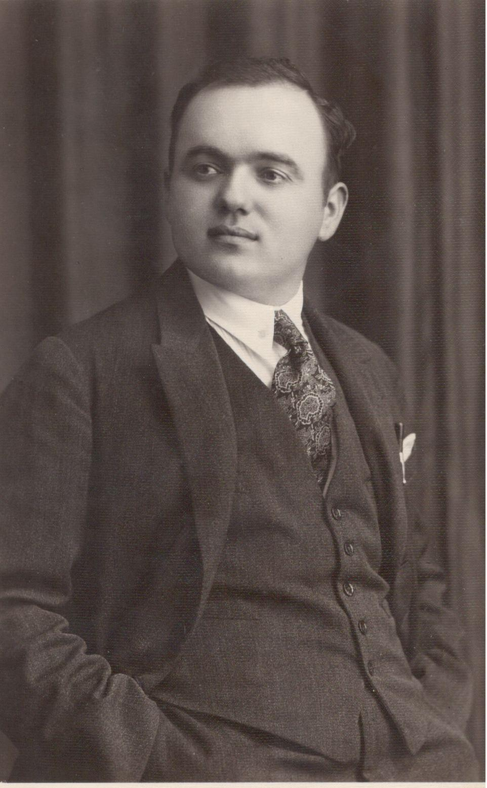 Ilija Milovančev, Mayor of Stari Vrbas Municipality